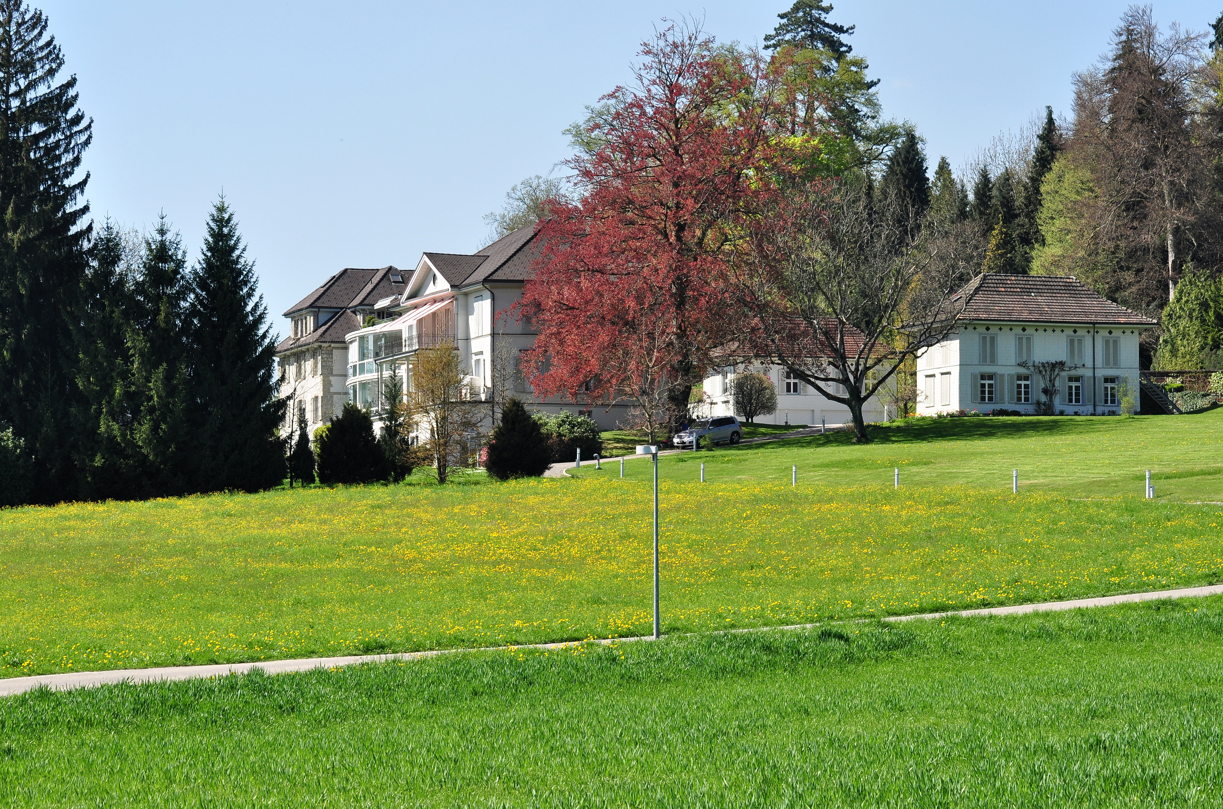 Meienberg nearby Rapperswil respectively Jona (Switzerland)